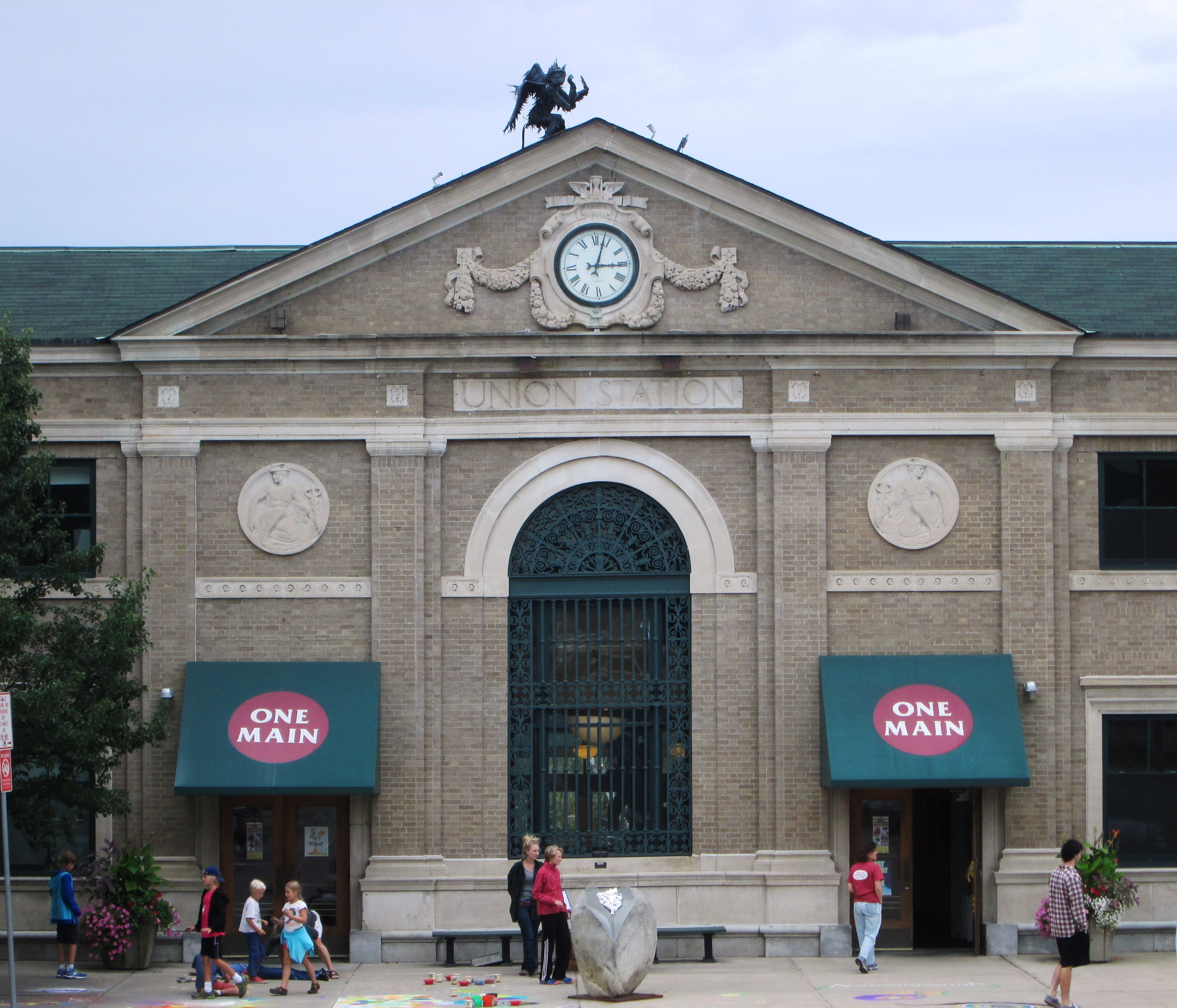 Union Station located at 1 Main Street at Lake Street in Burlington, Vermont was built in 1916 and was designed in the Neo-Classical style by Alfred Fellheimer with Charles Schultz as supervising architect. It is part of the Battery Street Historic District. (Source: [1])